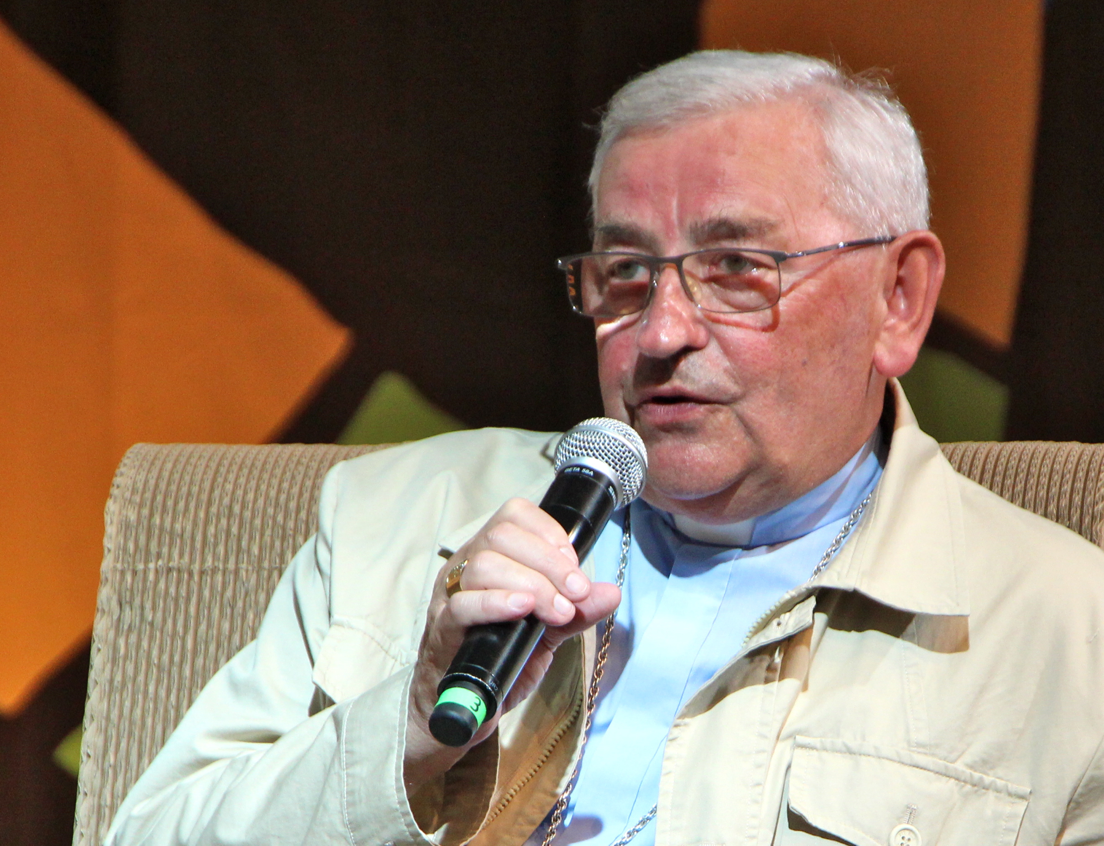 Bishop Tadeusz Pieronek during the Woodstock Festival Poland, 2012.